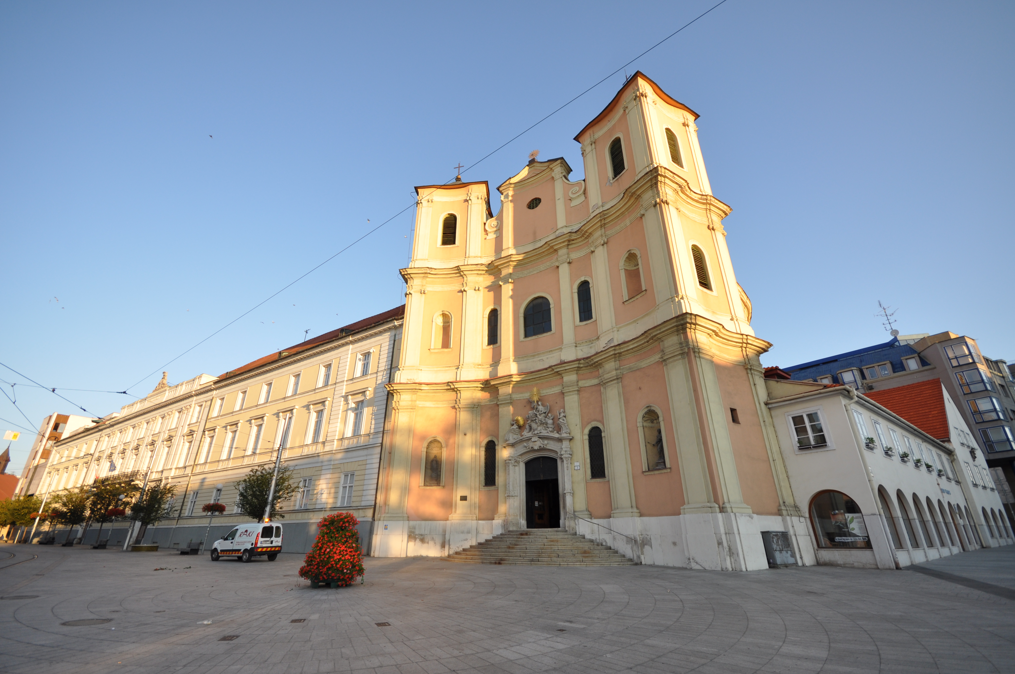 The Trinitarian Church or Trinity Church, full name Church of Saint John of Matha and Saint Felix of Valois (Slovak: Kostol trinitárov, Trinitársky kostol or Trojičný kostol or Kostol svätého Jána z Mathy a svätého Felixa z Valois; incorrectly Holy Trinity Church (Kostol Najsvätejšej Trojice)), is a Baroque-style church in Bratislava's Old Town borough, on the Župné námestie square. The church was built on the site of the older Church of St. Michael, which was demolished in 1529, along with the settlement of St. Michael, during the Ottoman wars, along with other suburbs, so as to see better the attacking Turks. The Trinitarian Order started construction of the church in 1717 and it was sanctified in 1727, although work in the interior continued into the first half of the 18th century